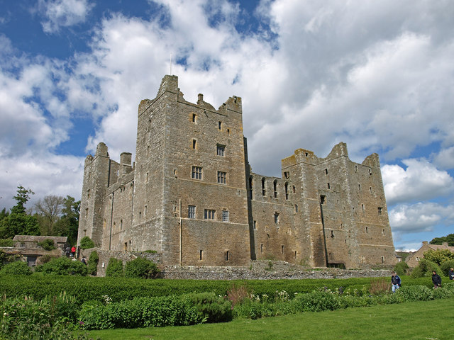 Bolton Castle, at Castle Bolton A medieval fortress situated in the heart of Wensleydale, inside the Yorkshire Dales National Park. Completed in 1399 and is well preserved.